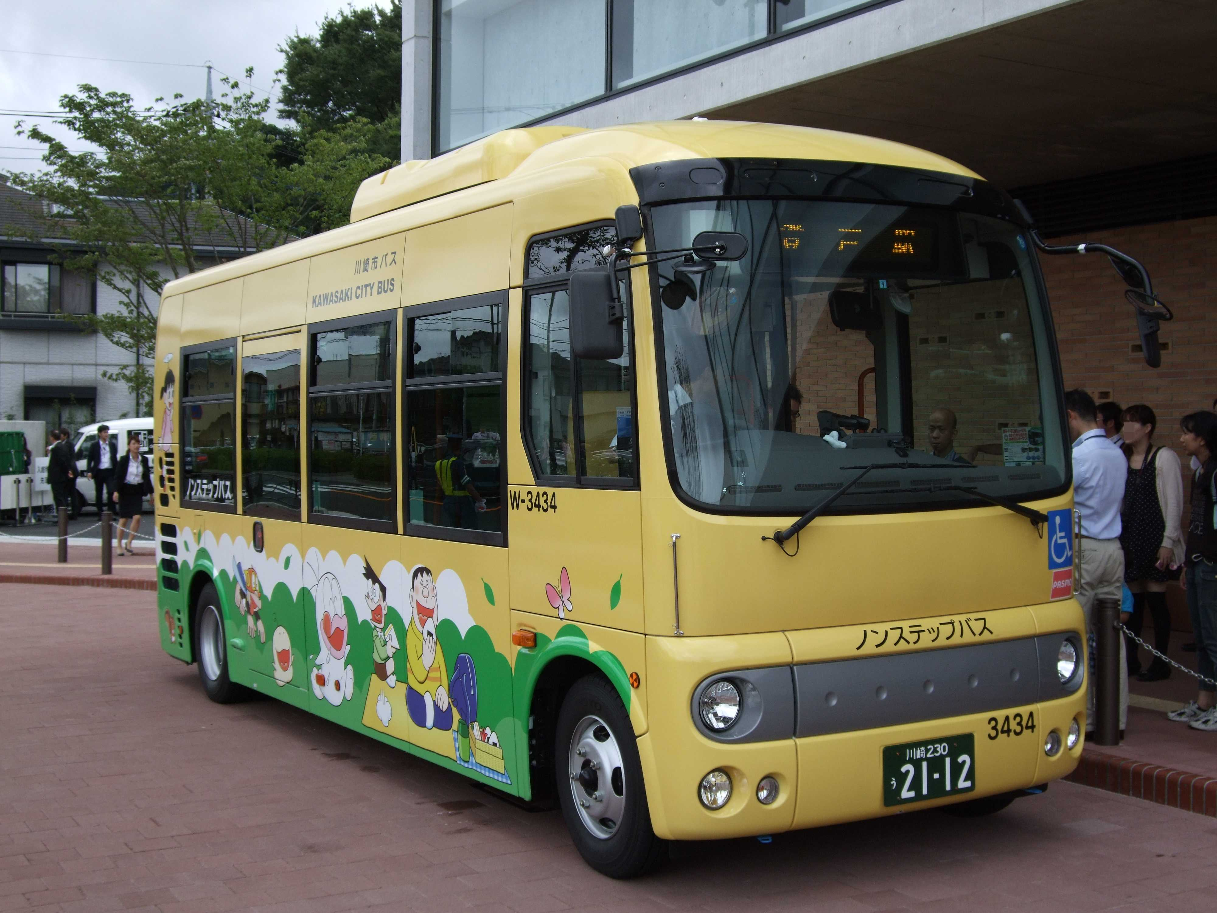 Kawasaki city bus Fujiko.F.Fujio Musium shuttle bus